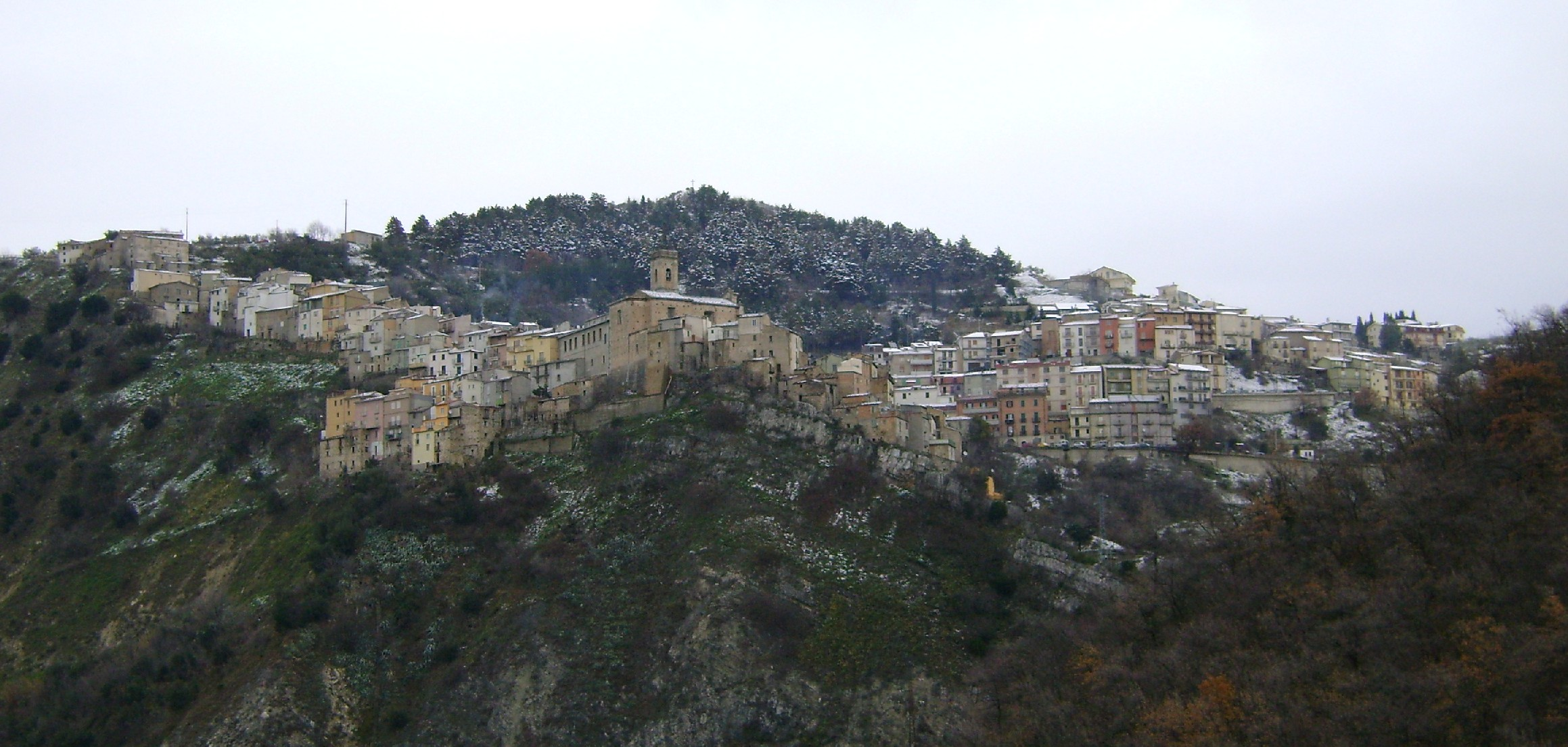 View of Colledimezzo (province of Chieti, Italy)